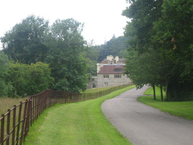 Fonthill House.This is the east side of Fonthill House taken from the public footpath that goes through the grounds of the house from the hamlet of Ridge to Fonthill Lake. This is only the most recent of a number of Fonthill Houses in the area going back to the sixteenth century, and was built relatively recently in 1972. The house is the home of the 3rd Lord Margadale, Alastair John Morrison.